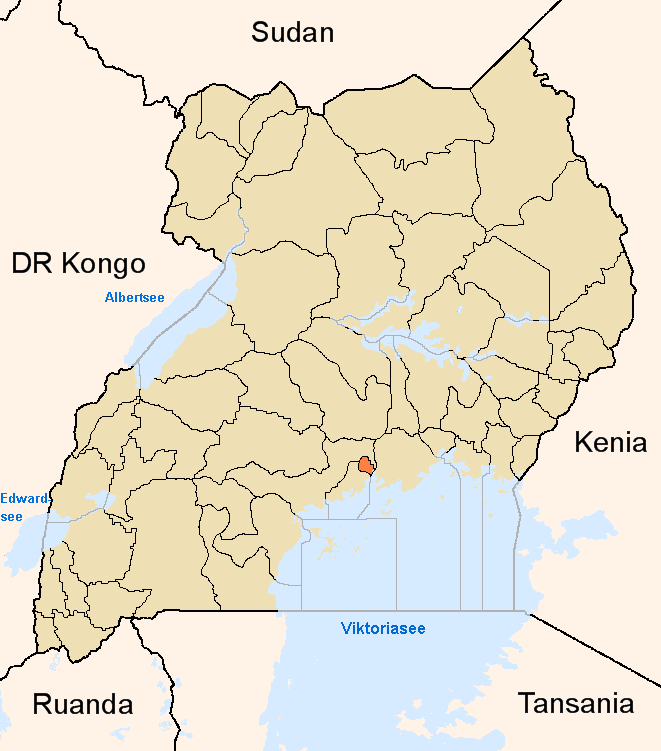 Map showing the position of the district Kampala in Uganda.